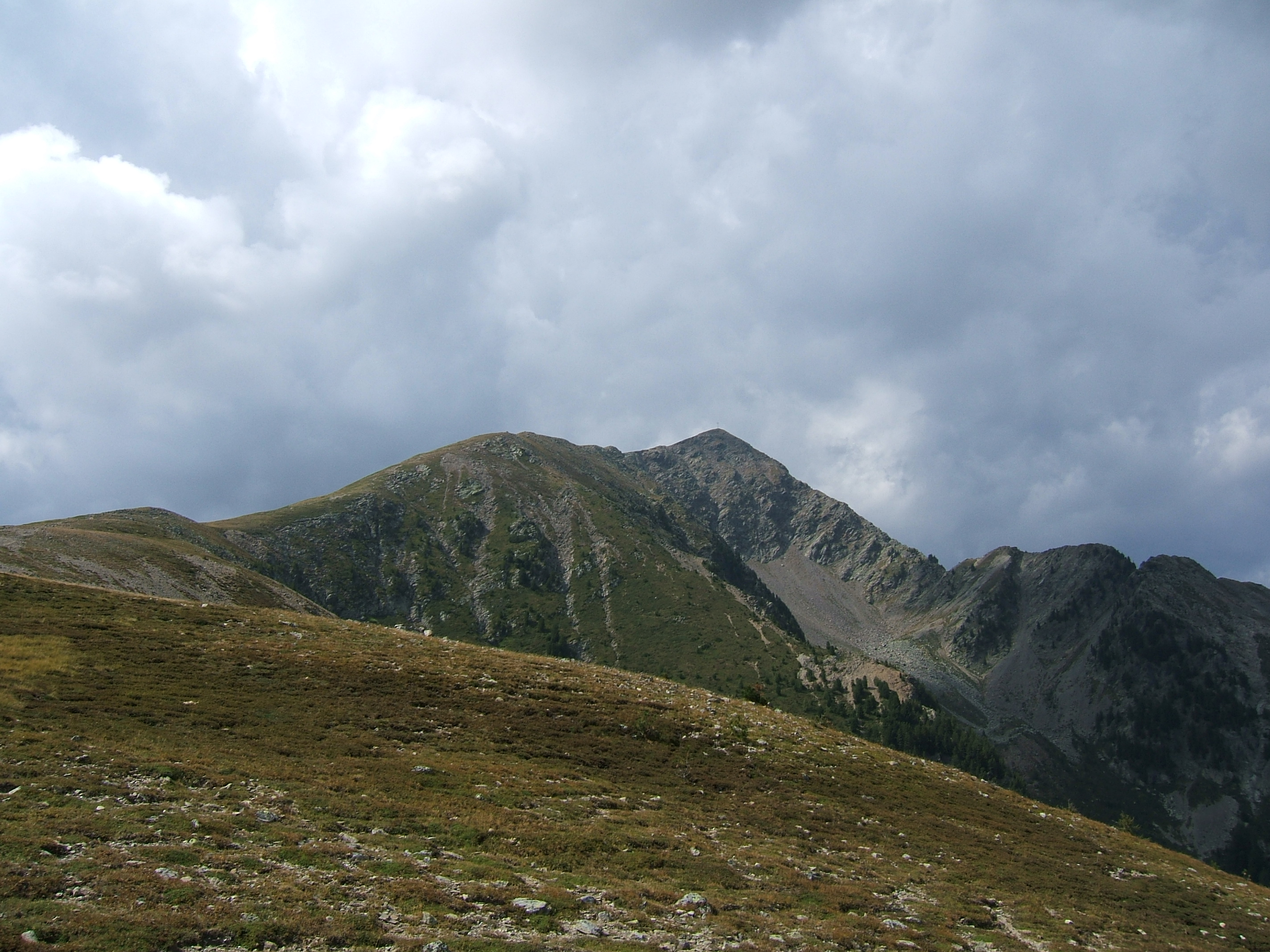 Karspitze (Sarntal Alps) from east